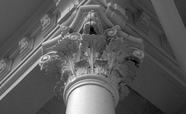 The Griffith Mansion in Yolo / Cacheville CA, built 1886. Now owned by the Tornincasa family. Exterior Corinthian column detail.